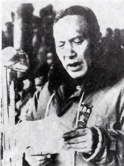 Lu Han (1895 - 1974)